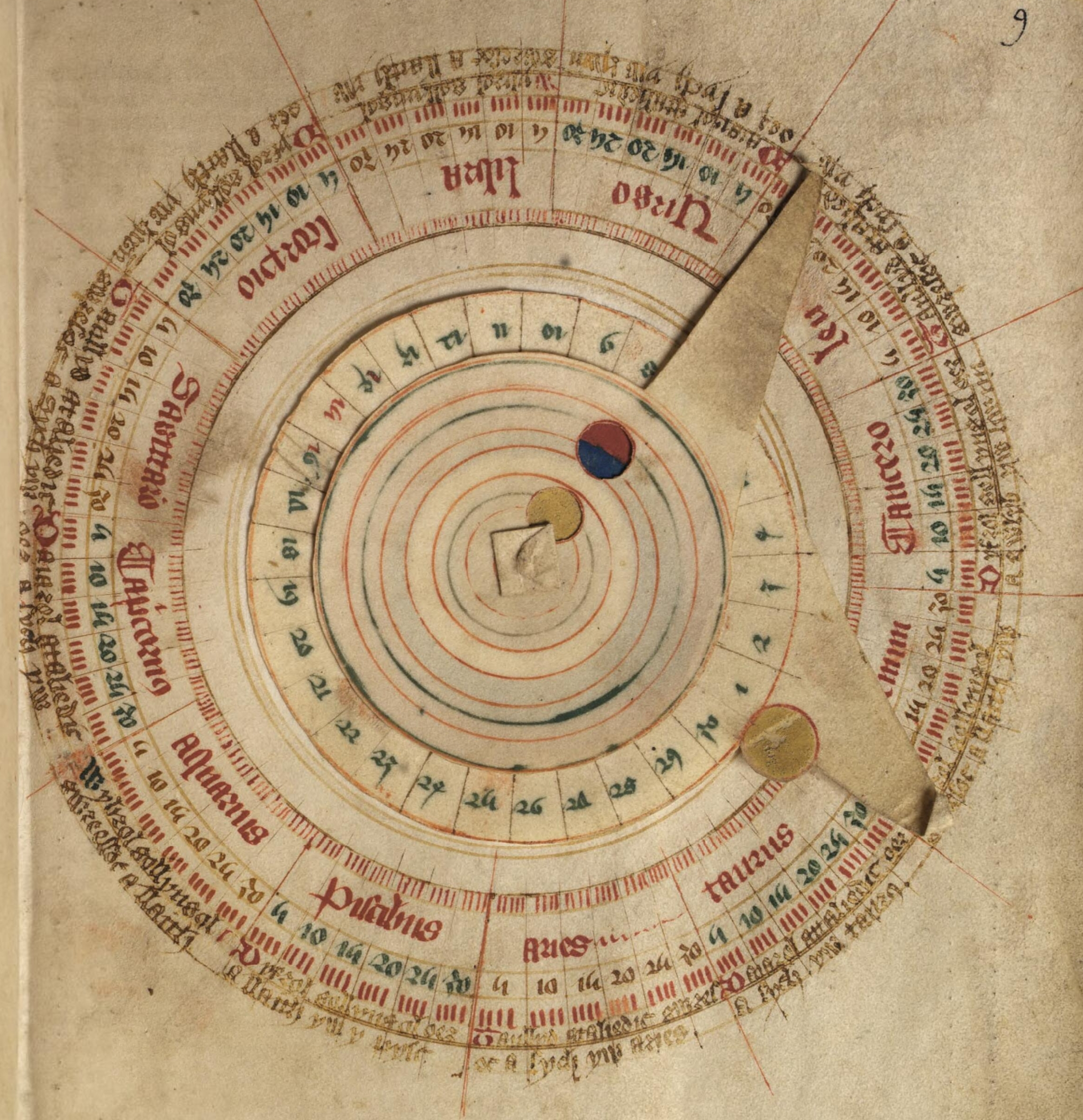 This part of the manuscript contains an assortment of texts about astrology and medicine. This combination was common in manuscripts all over Europe by the fifteenth century. To people in the Middle Ages there was close link between the time of year, the moon's seasons and other astrological factors and health and medical treatment, as they would affect the body's humours.